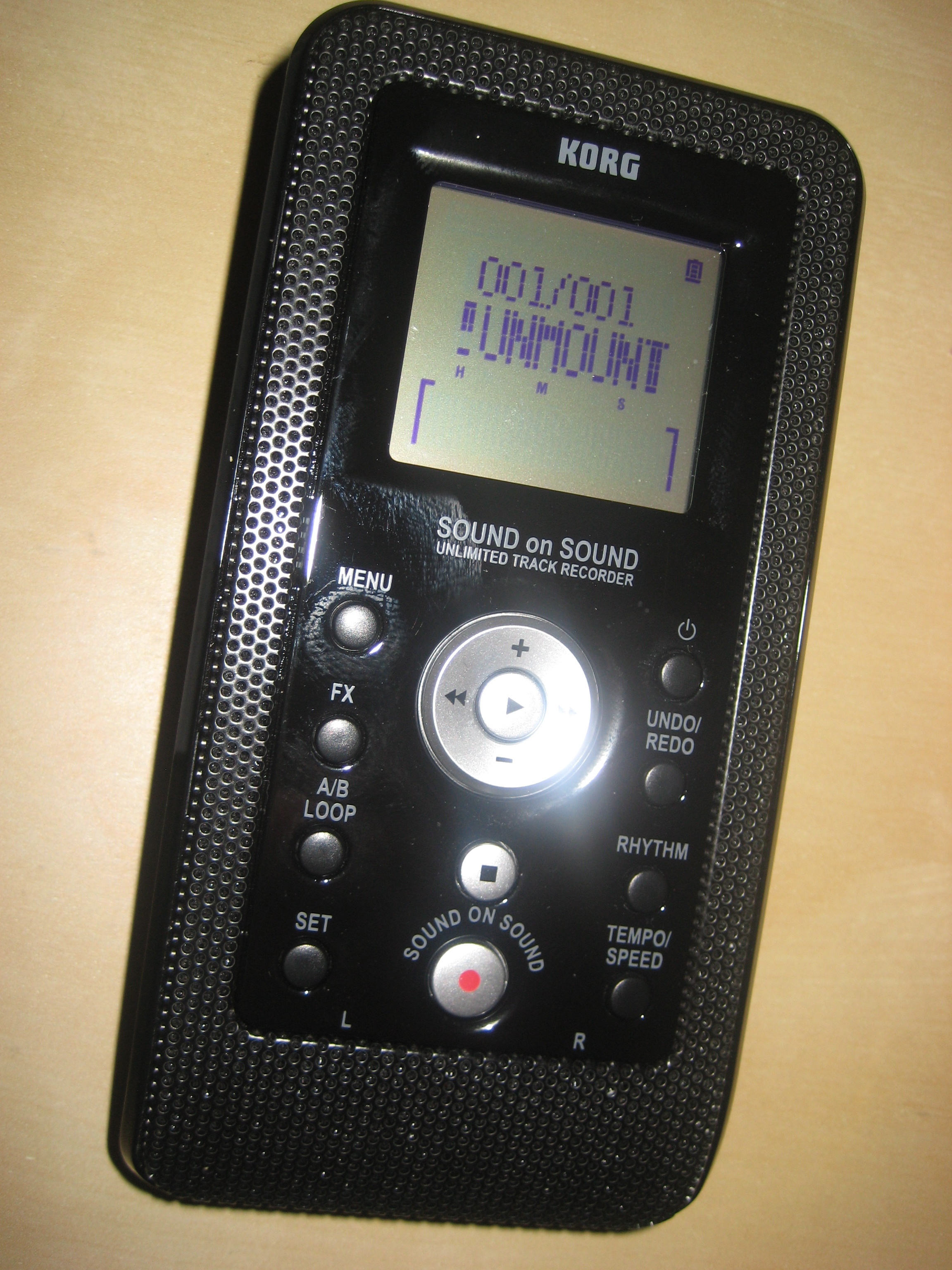 Korg Sound on Sound Unlimited Track Recorder